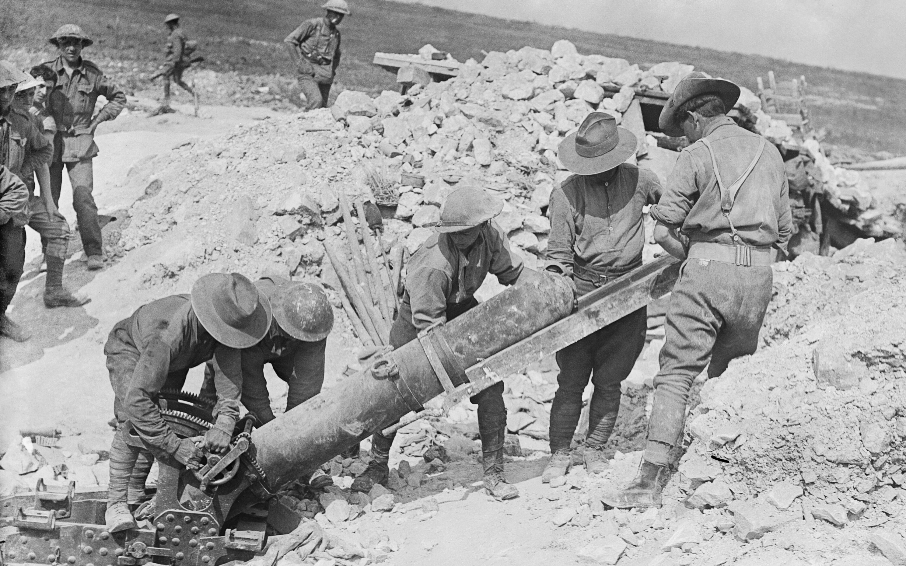 Photograph of Australians loading a 9.45 inch Heavy Trench mortar, Battle of Pozieres. The gun crew have been identified, left to right, as Sergeant Daley; Albert Roy Kyle; Corporal Clift; Gunner Lear; Gunner Clive Talbot. See Image:AustraliansLoading9.45inchMortarColouredPostcard1916.jpg for the colourised postcard that was based on this photograph.